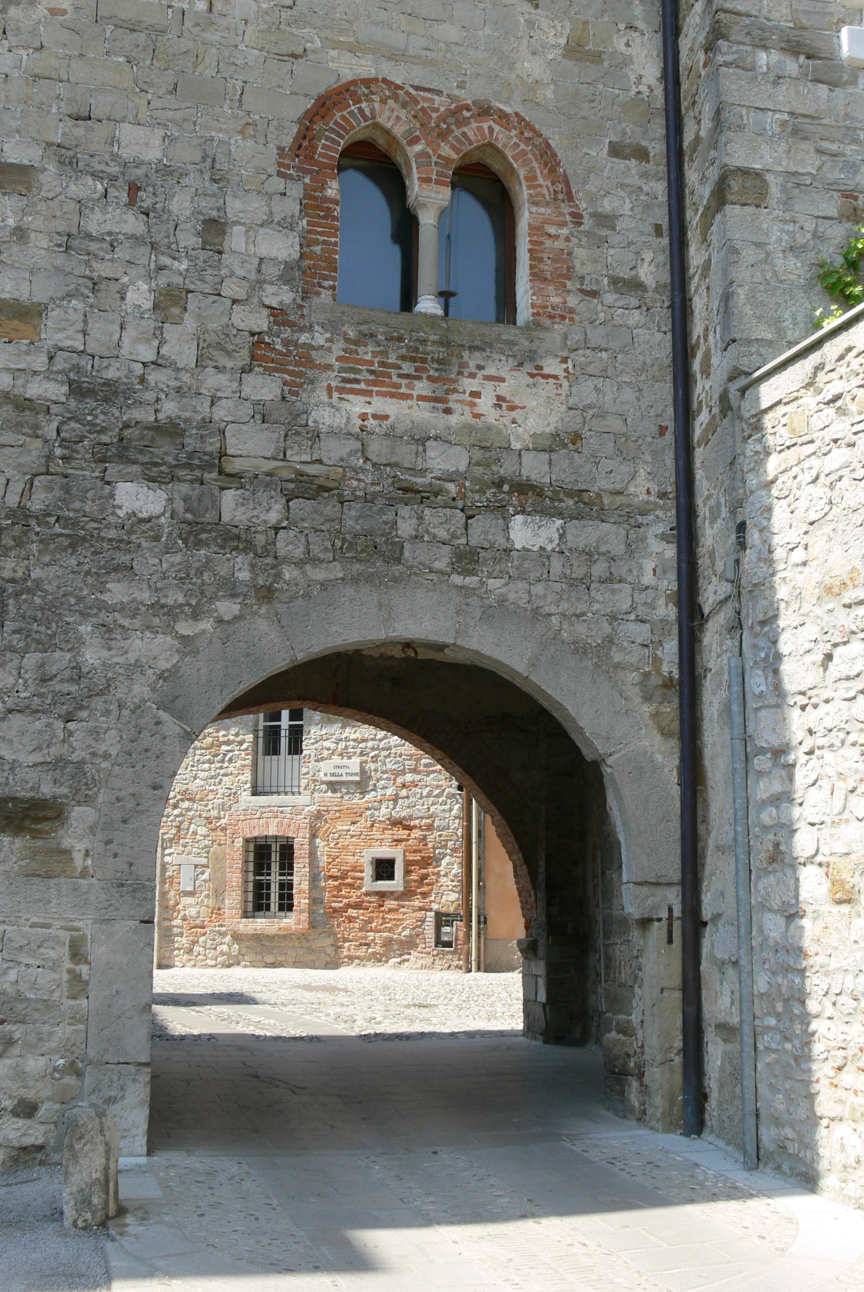 Cividale, Italy. Porta Brossana, also called Porta patriarcale – Gothic window in a city gate of the 7th century